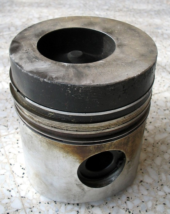 Piston of a diesel engine